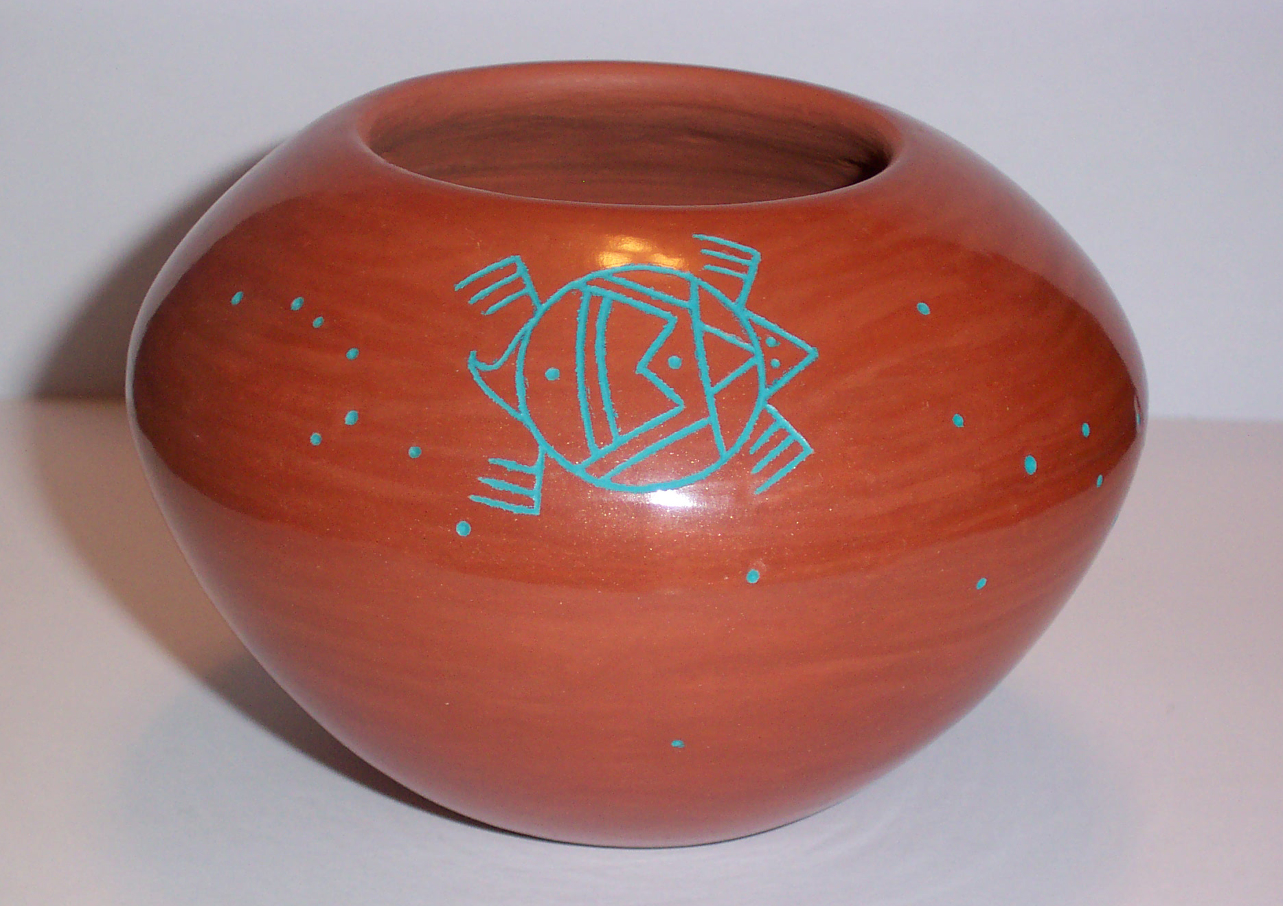 Red clay pot with incised turquoise turtle motif, crafted by Paul Speckled Rock of Santa Clara Pueblo, New Mexico. From a private collection.